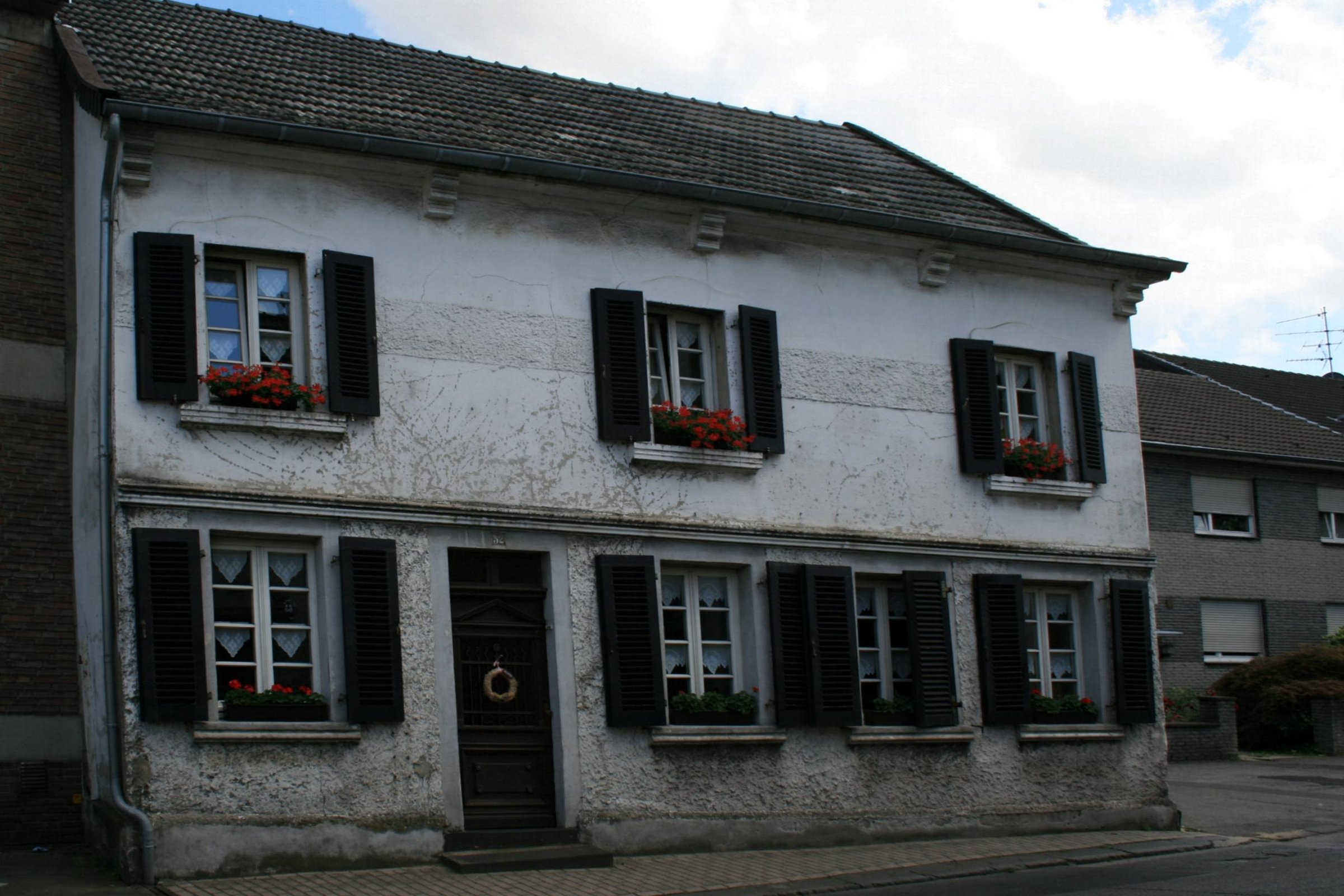 Cultural heritage monument No. G 040 in Mönchengladbach